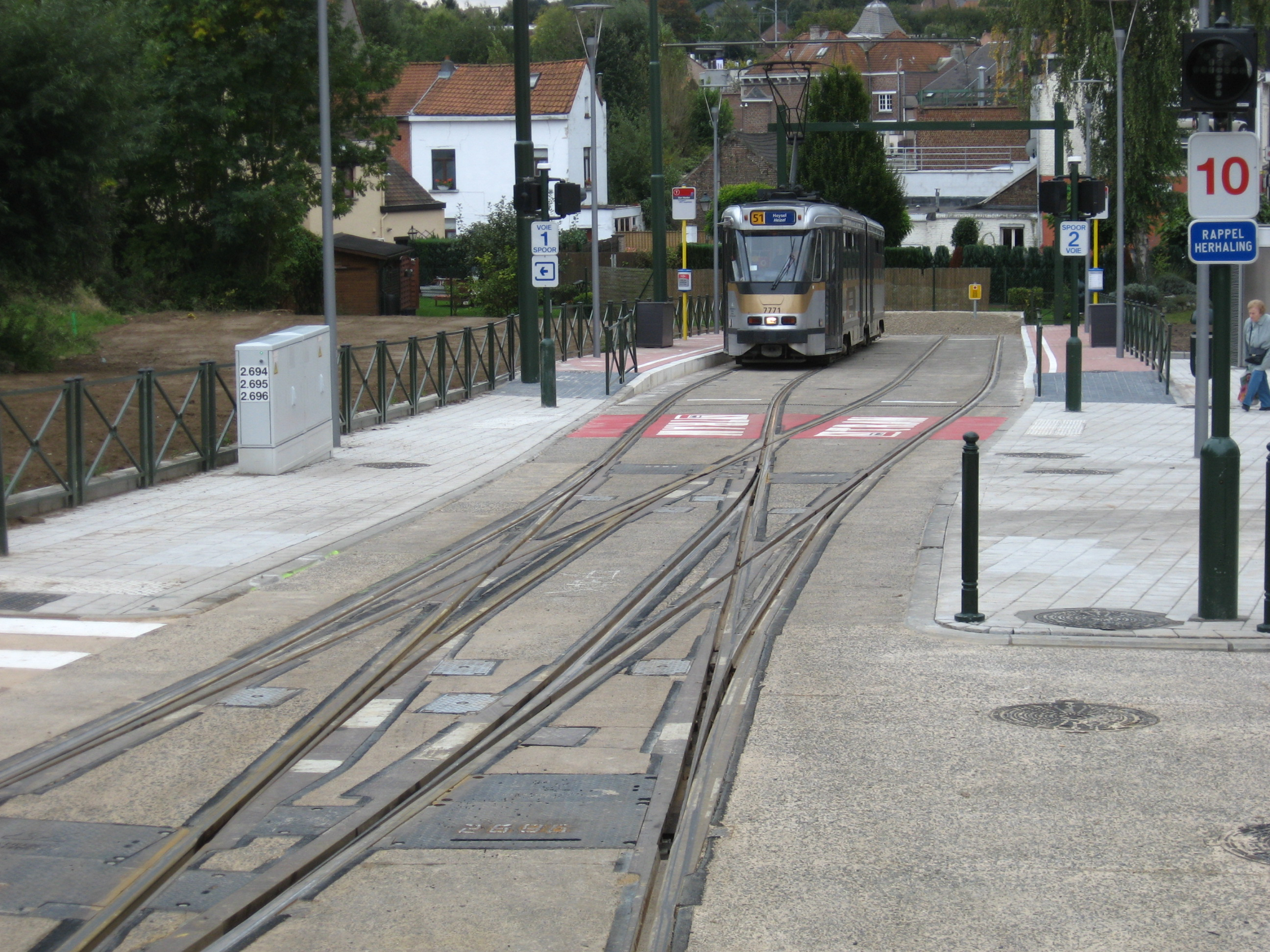 New South terminus "Van Haelen" off tramline 51.